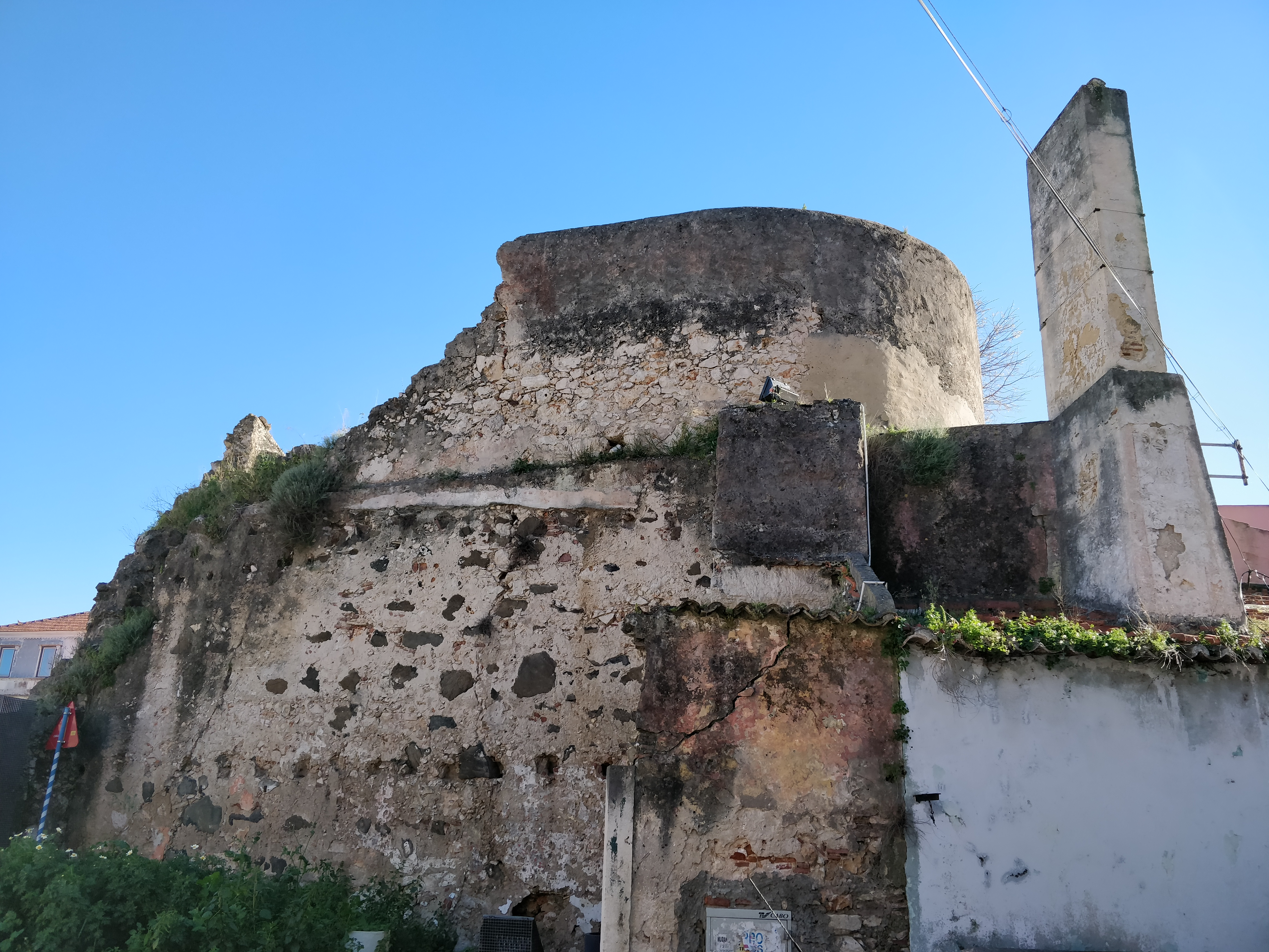 External view of lime kiln in Oeiras, Portugal